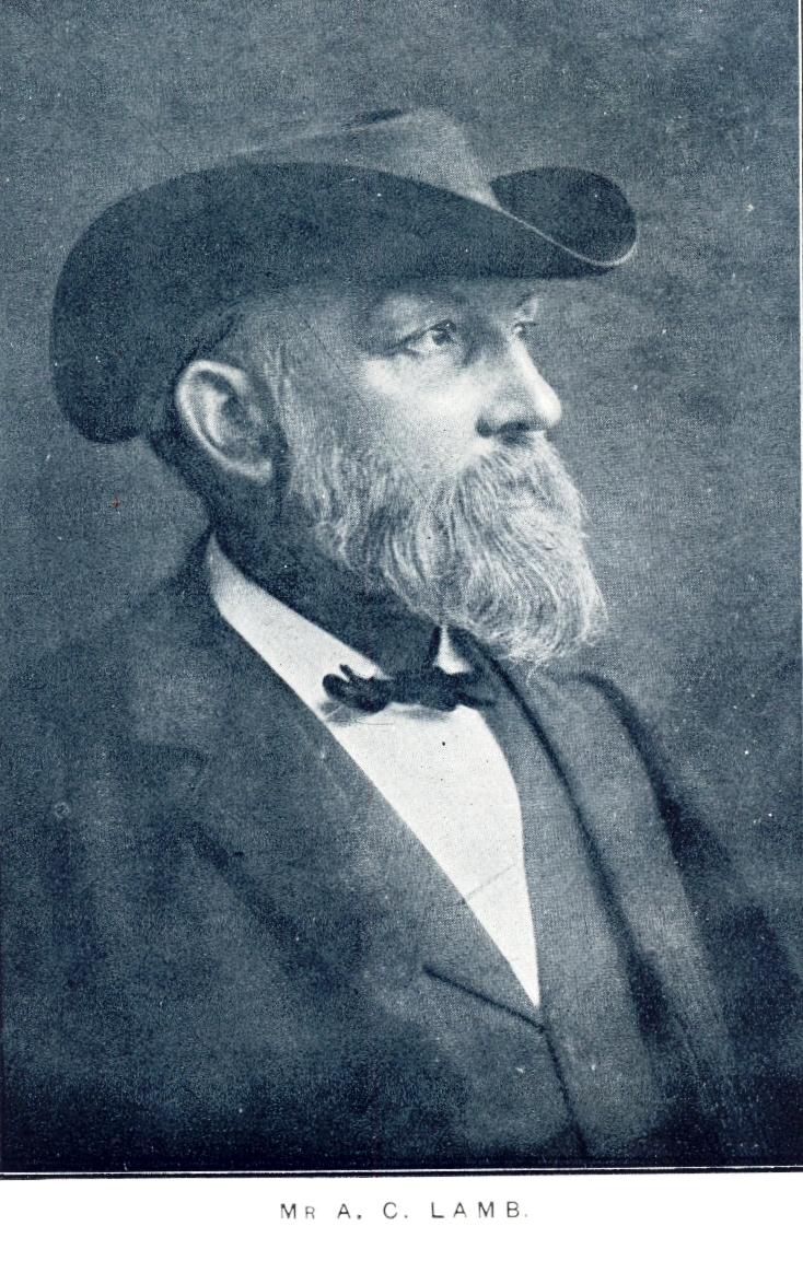 Portrait of Alexander Crawford Lamb (1843-1897).